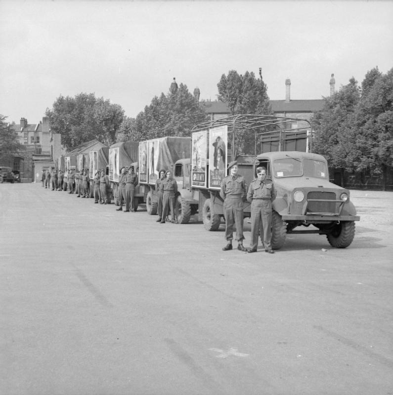 British Army Recruiting Campaign Lorries of a mobile recruiting team lined up at Chelsea Barracks, London.